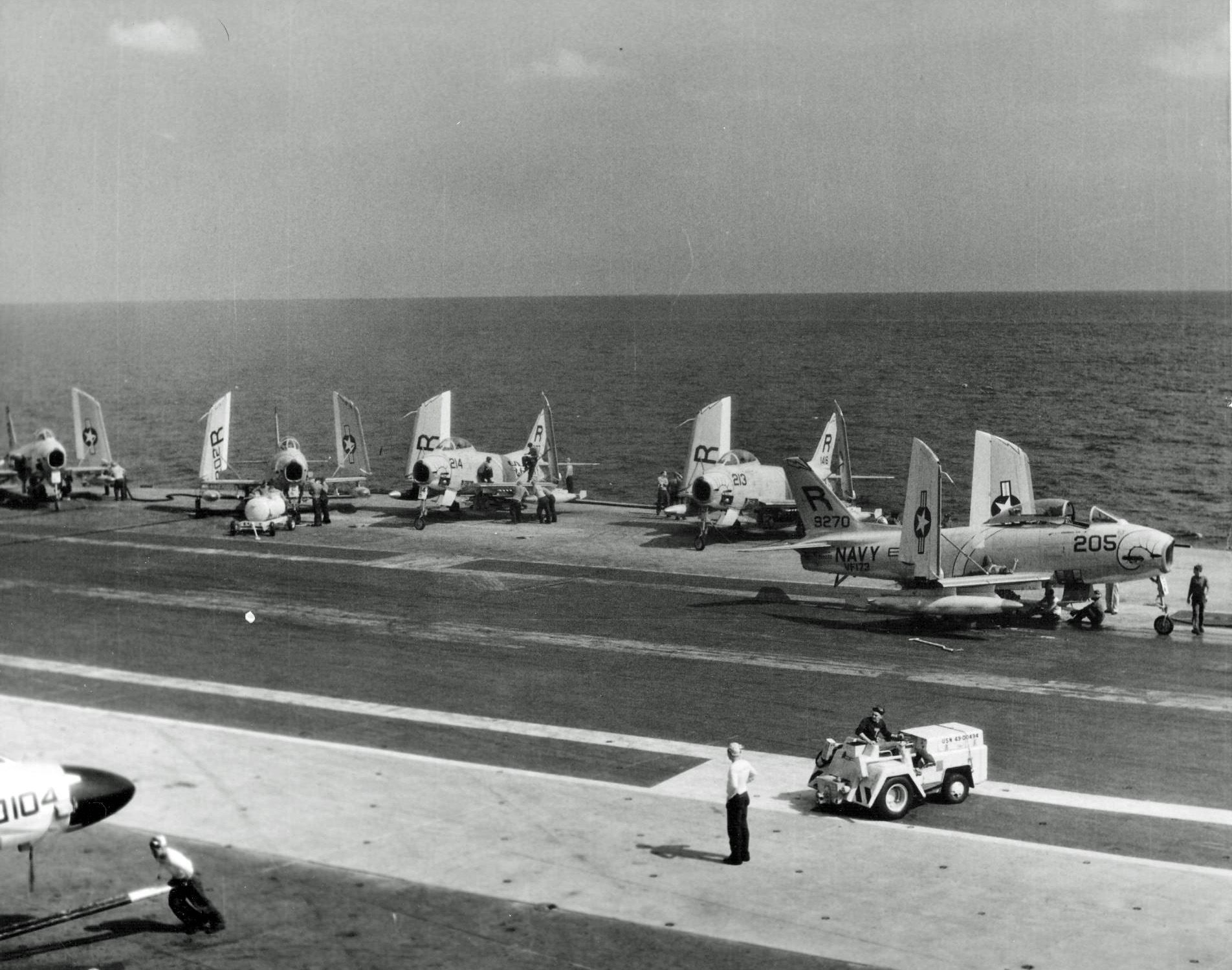 U.S. Navy North American FJ-3 Fury fighters from Fighter Squadron 173 (VF-173) "Jesters", on the flight deck of the aircraft carrier USS Saratoga (CVA-60), 1956-1957. VF-173 was assigned to Carrier Air Group 17 (CVG-17), which was assigned to the USS Franklin D. Roosevelt (CVA-42) from 1956 to 1958.